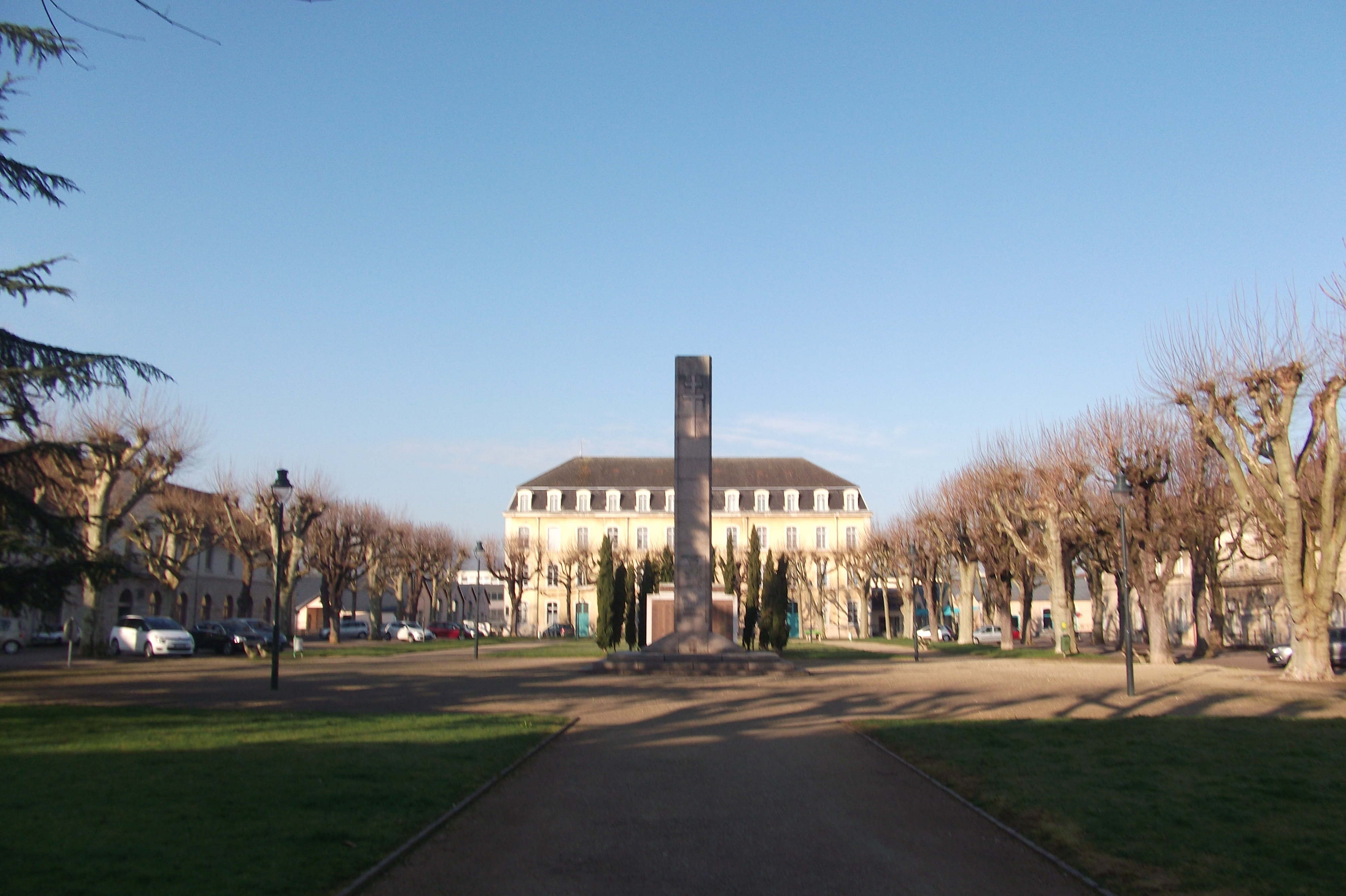 La place du 11ème chasseur de Vesoul (Haute-Saône, Franche-Comté)